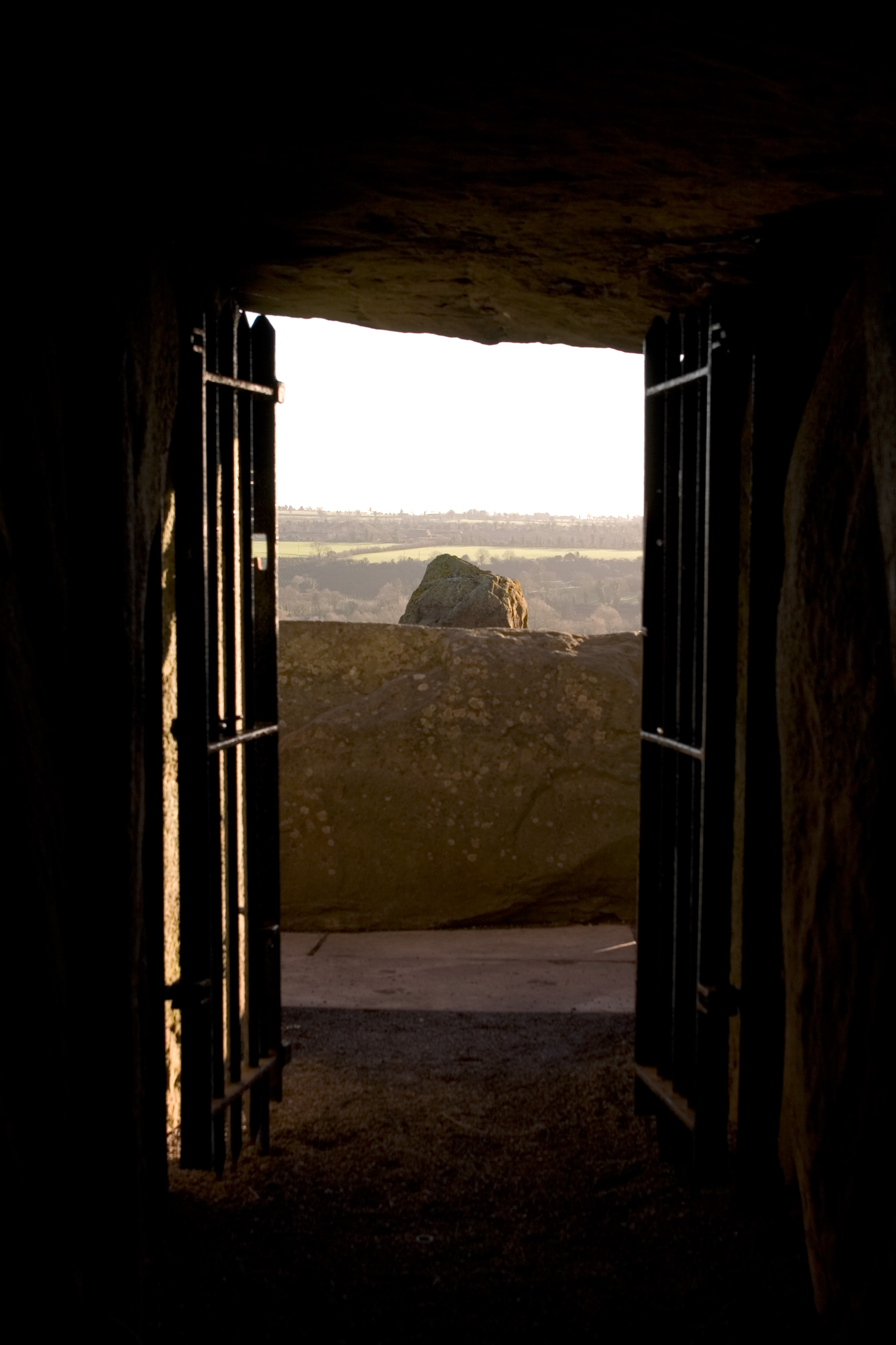 View from Newgrange burial chamber. County Meath, Ireland.